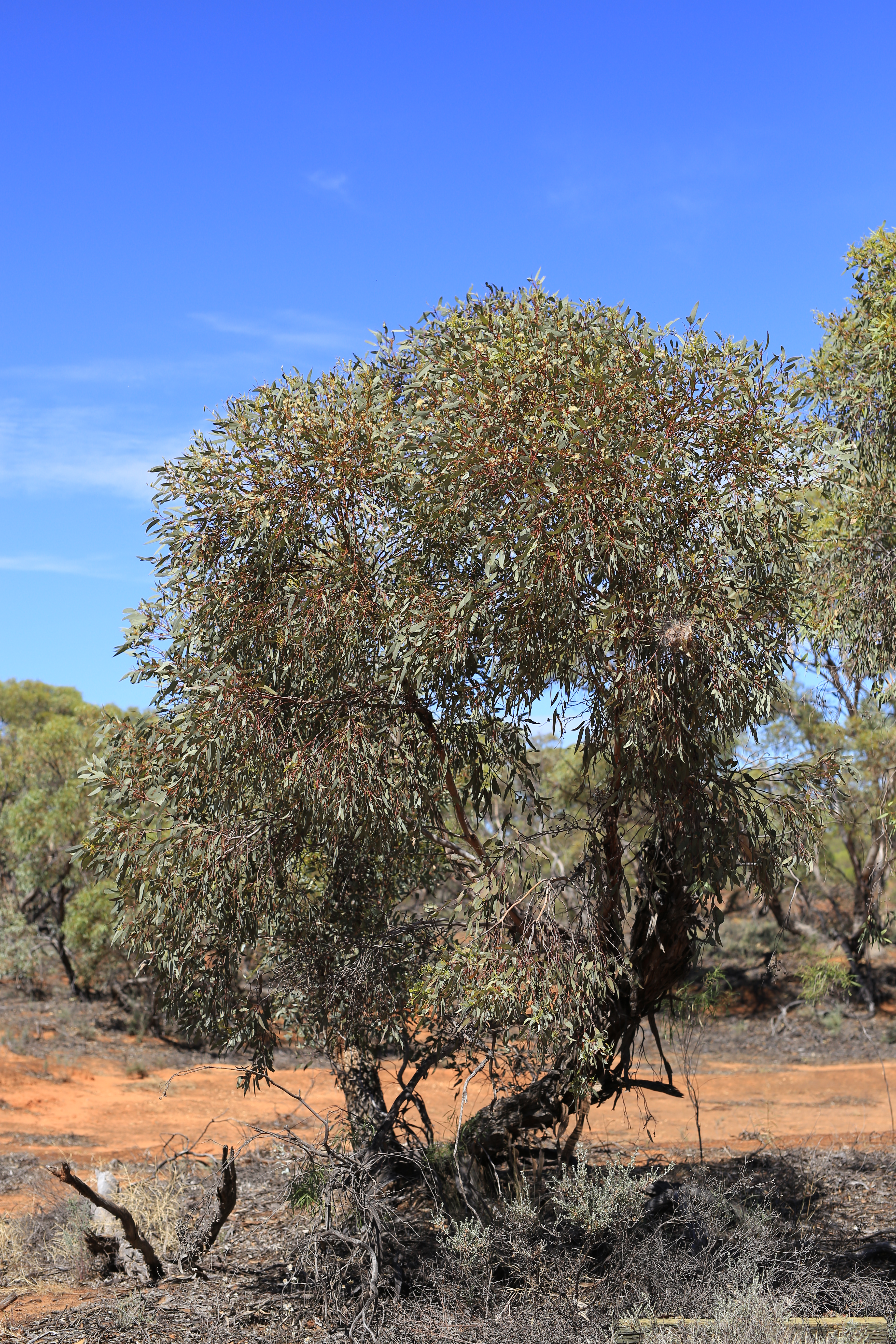 Eucalyptus socialis F.Muell. ex Miq., Hattah-Kulkyne National Park, VIC, 23 January 2017